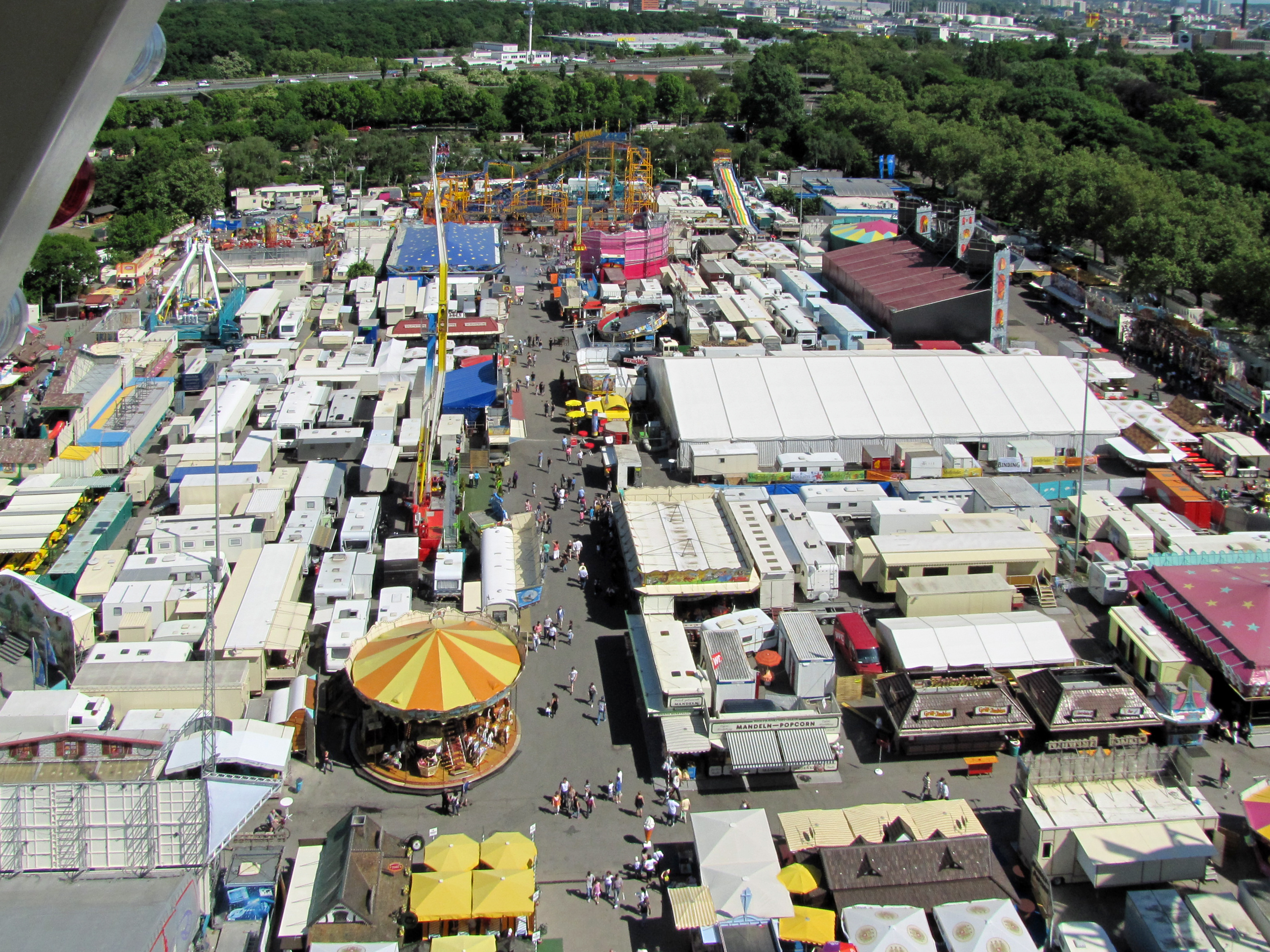 "Dippemess", a traditional funfair twice (spring and autumn) a year, 2011 in Frankfurt am Main, Hesse, Germany.